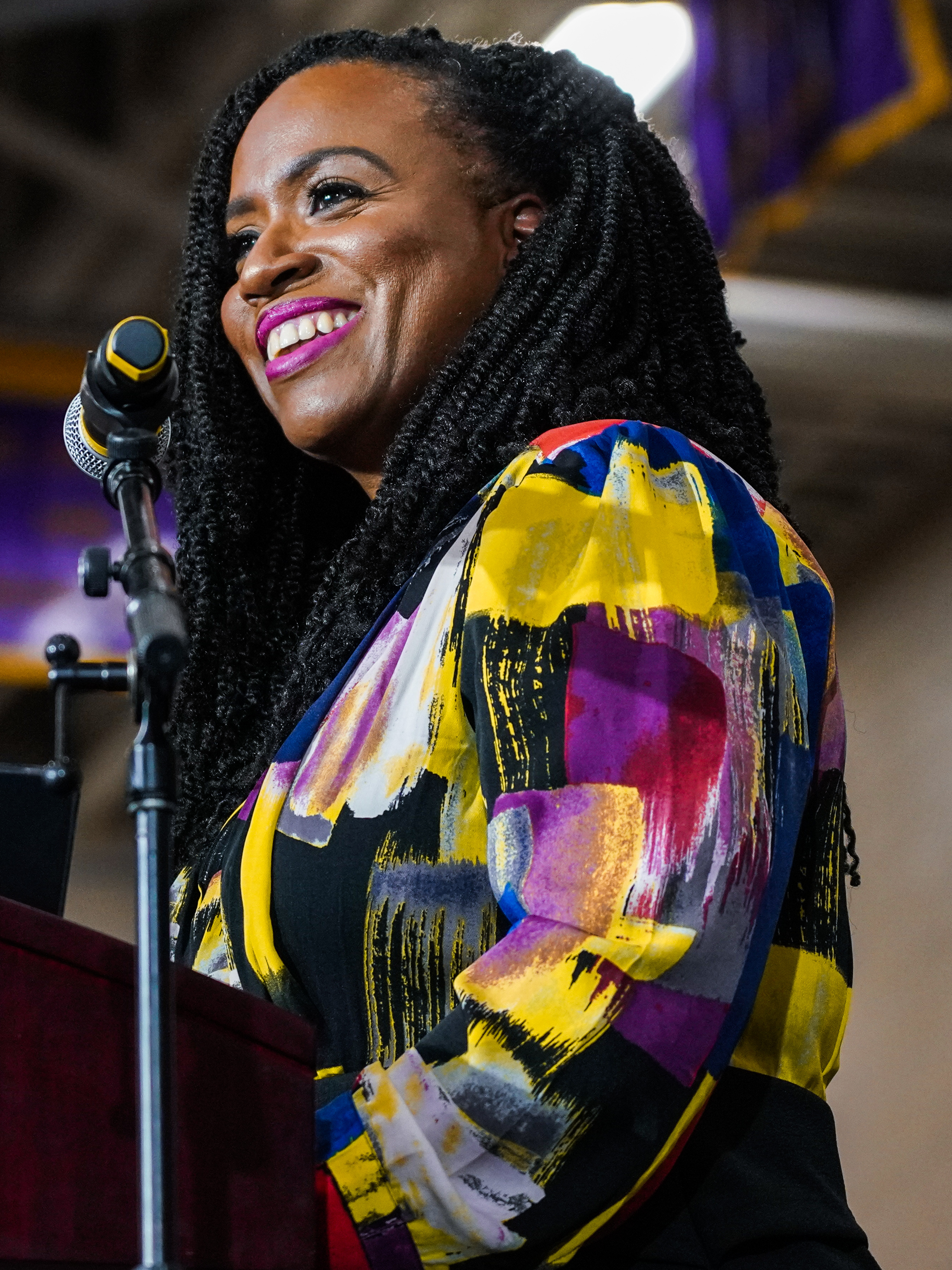 November 11, 2019